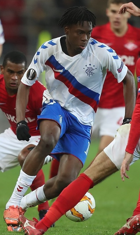 Ovie Ejaria with Rangers in an Europa League game against Spartak Moscow.